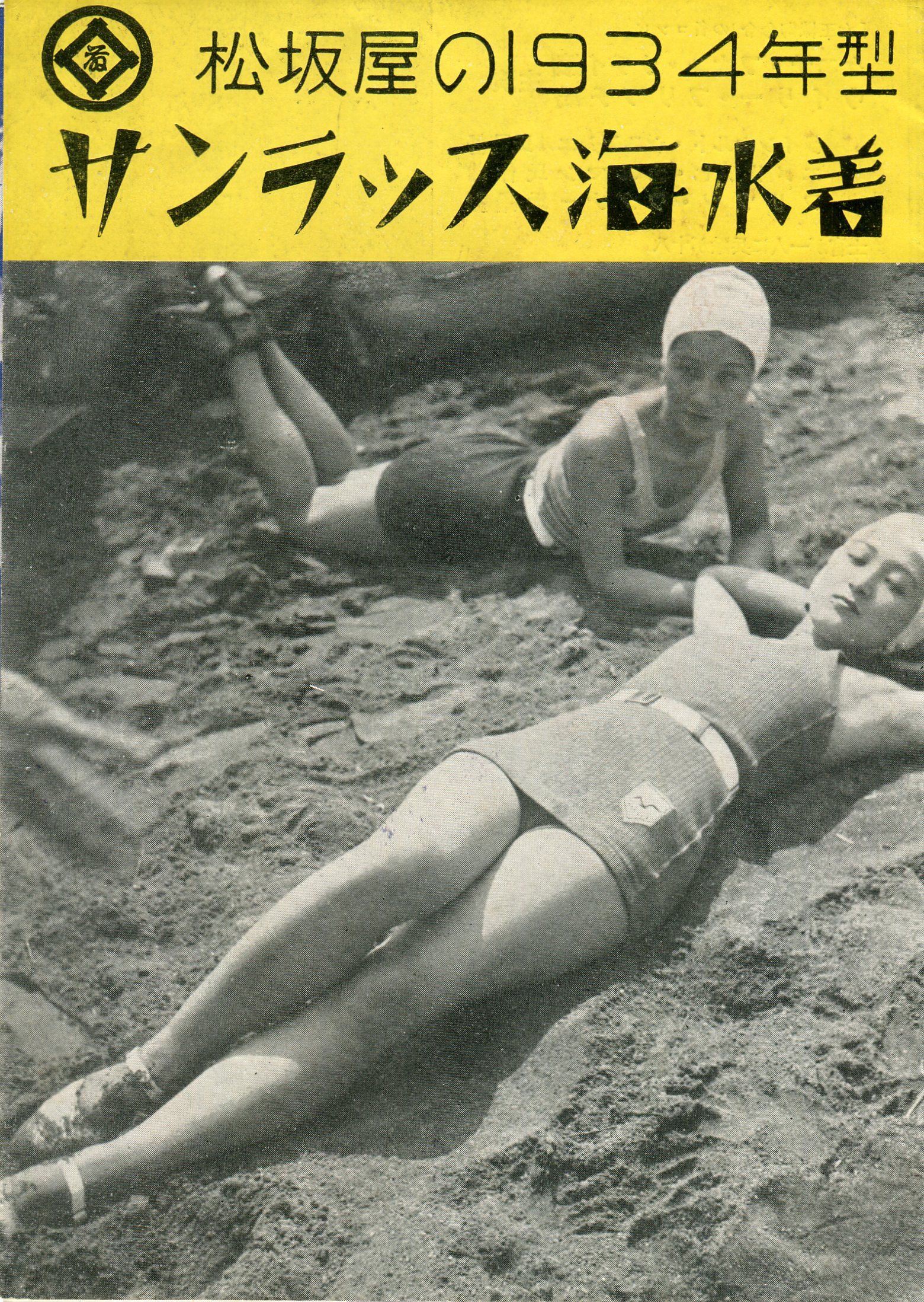 from front to back : Kiyo Kuroda and Setsuko Shinobu (1934)